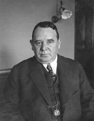 Half-length portrait of President of the American League's Cleveland Indians baseball team James C. Dunn sitting in a room in Chicago, Illinois.